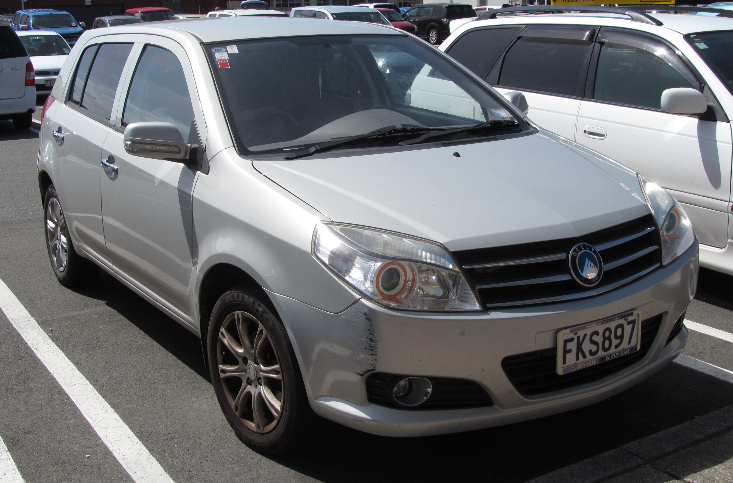 2010 Geely MK (New Zealand)